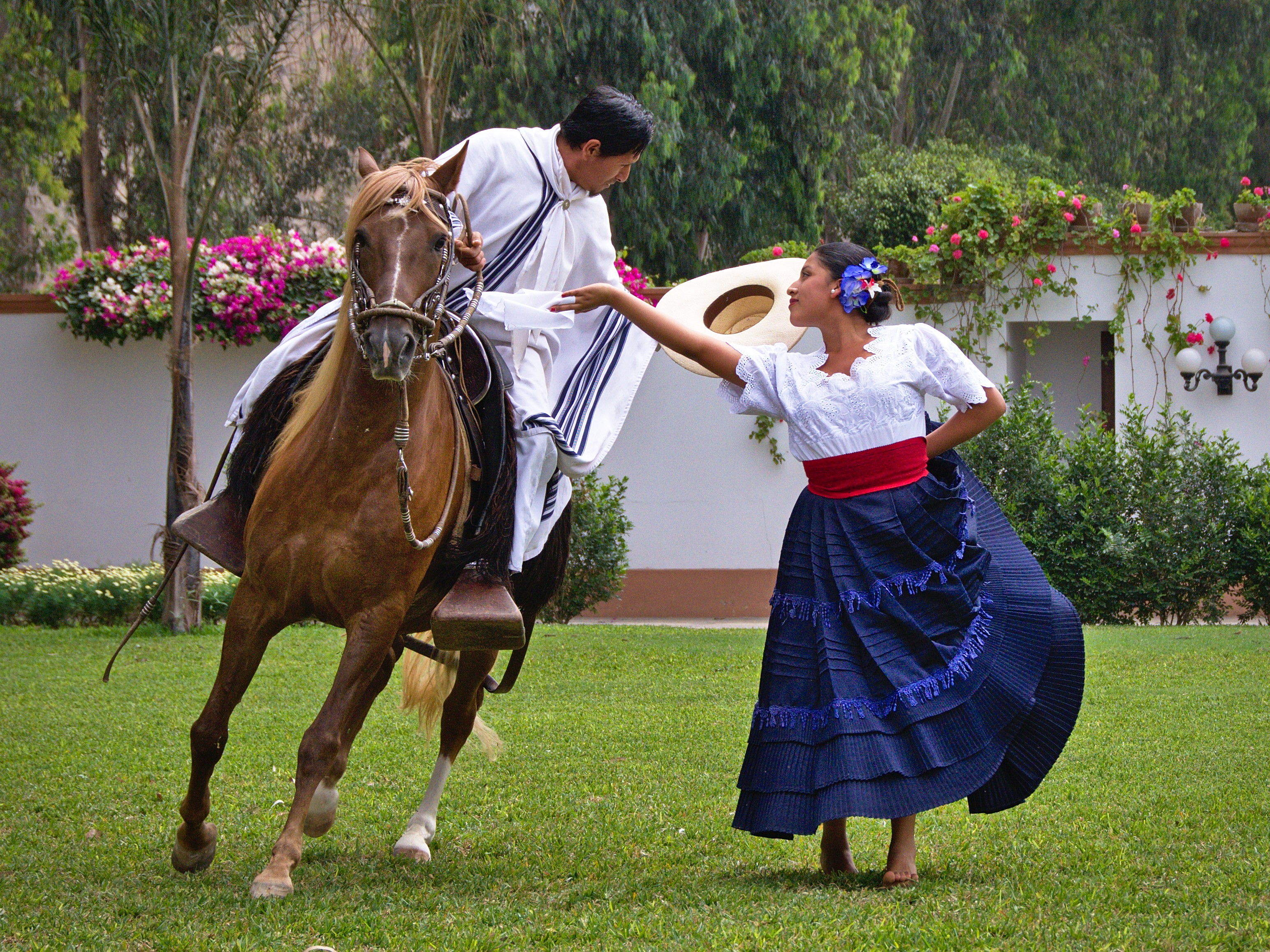 Marinera dance with Peruvian Paso horse, Casa Hacienda Los Ficus, LurÃ-n Valley, Lima, Peru